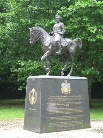 Statue of Dalip Singh Sukerchakia on Butten Island in Thetford, Norfolk